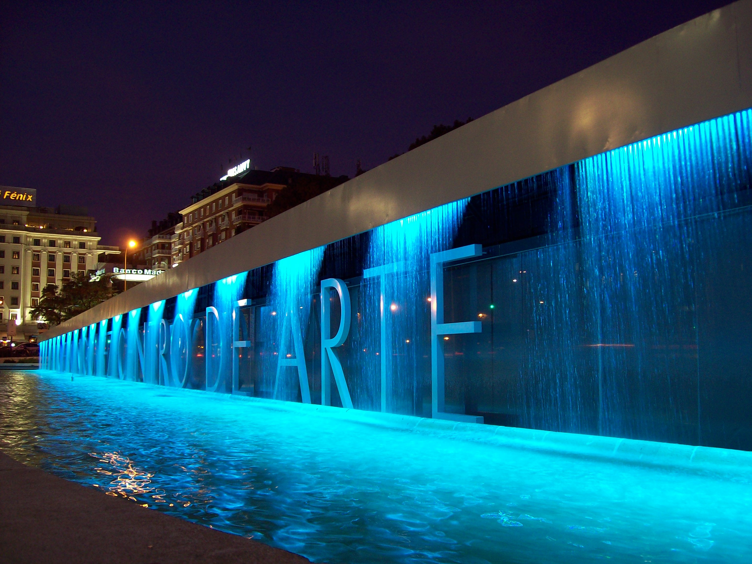 Exterior of Teatro Fernán Gómez in Madrid (Spain) at night.